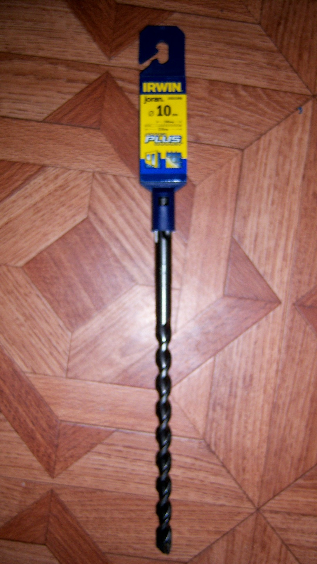 SDS drill bit Irwin 10mm